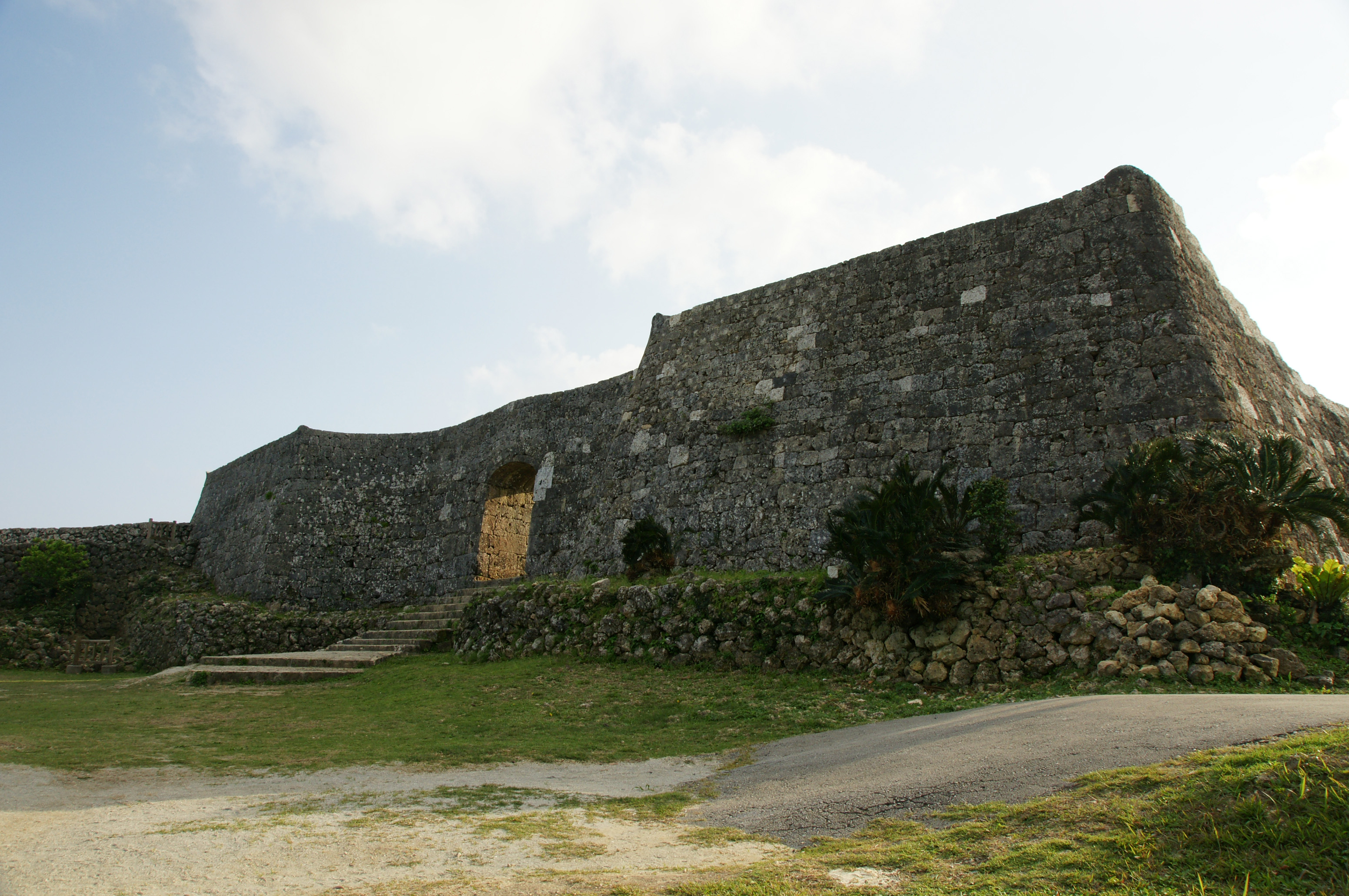 Nakagusuku Castle in Kitanakagusuku and Nakagusuku, Okinawa prefecture, Japan.